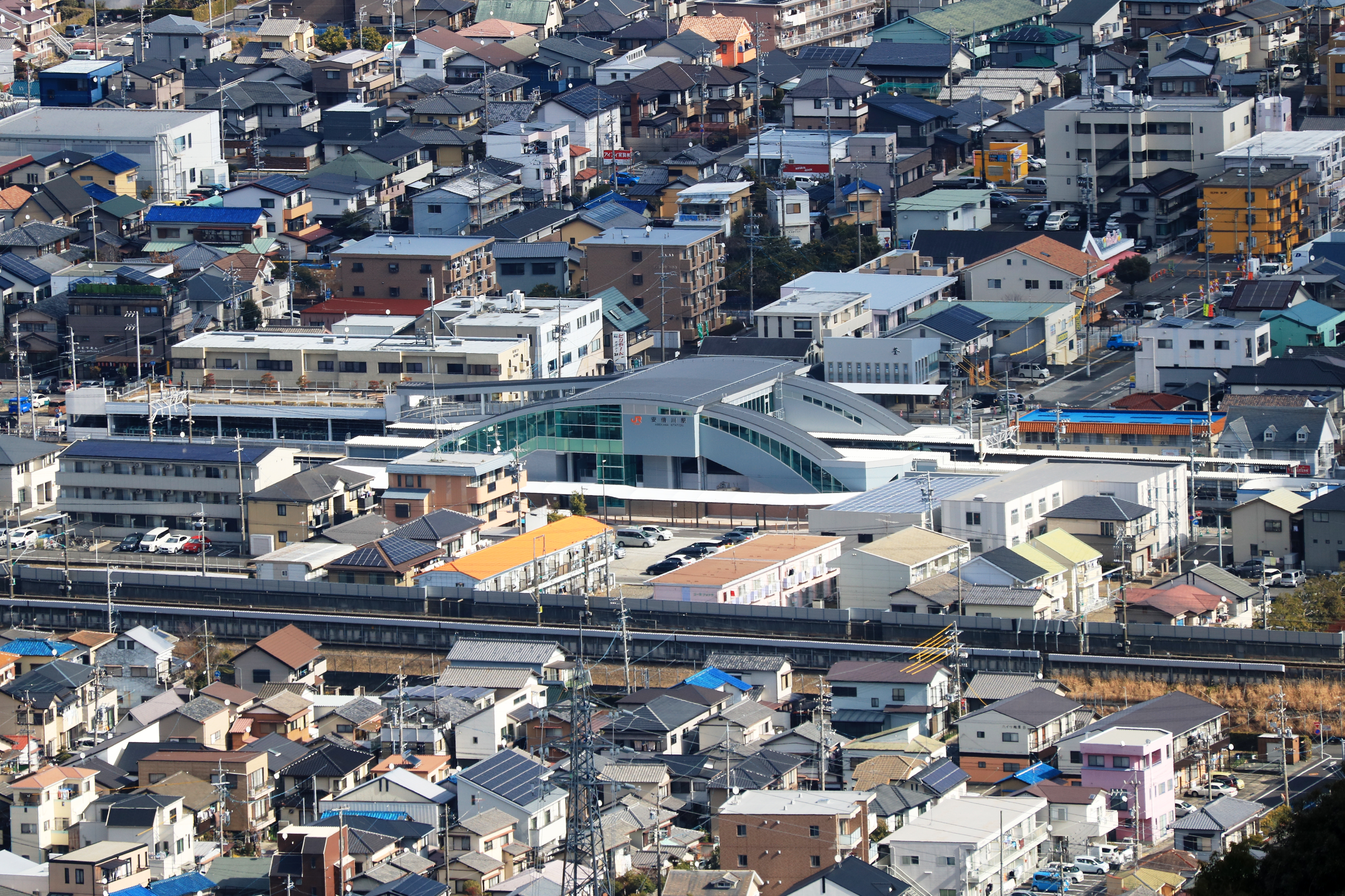 Abekawa Station seen from Choseniwa in Suruga-ku, Shizuoka City, Shizuoka Prefecture, Japan.